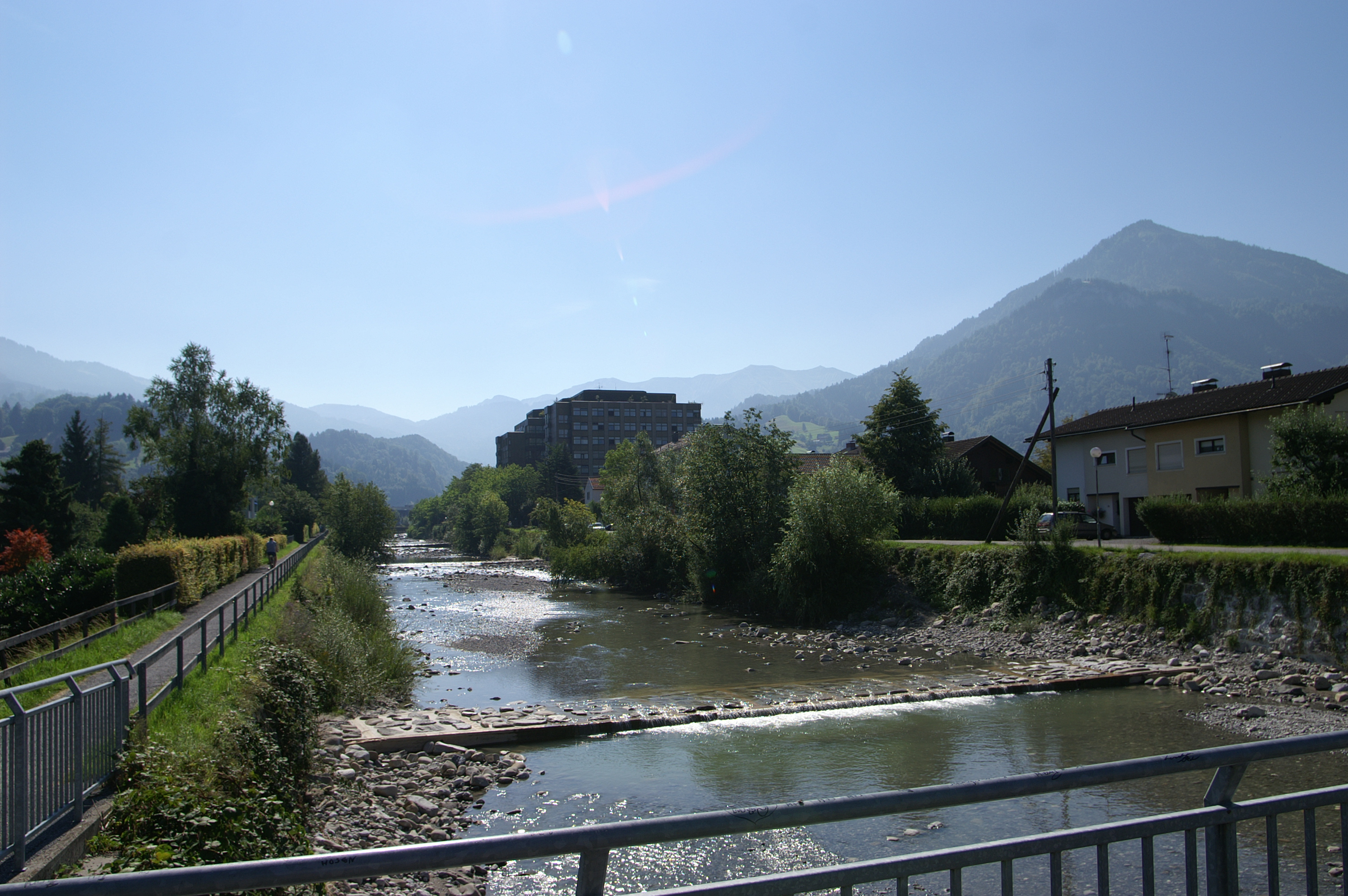 The Dornbirner Ache River in the city of Dornbirn.